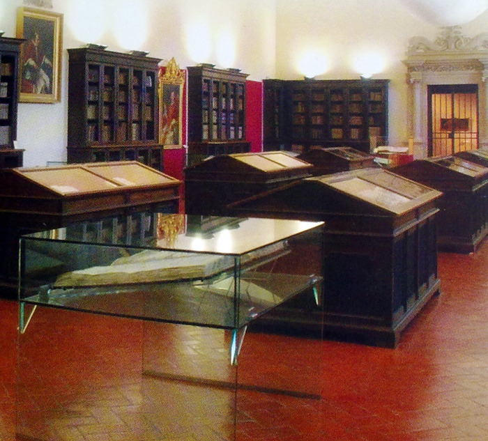 The "Biblioteca Piana"